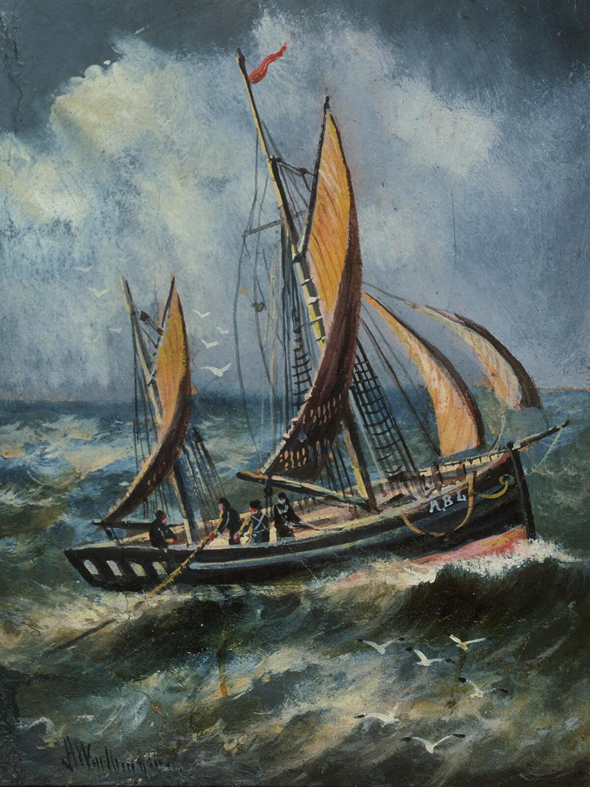 A painting from the Framed Works of Art collection at the National Library of wales.